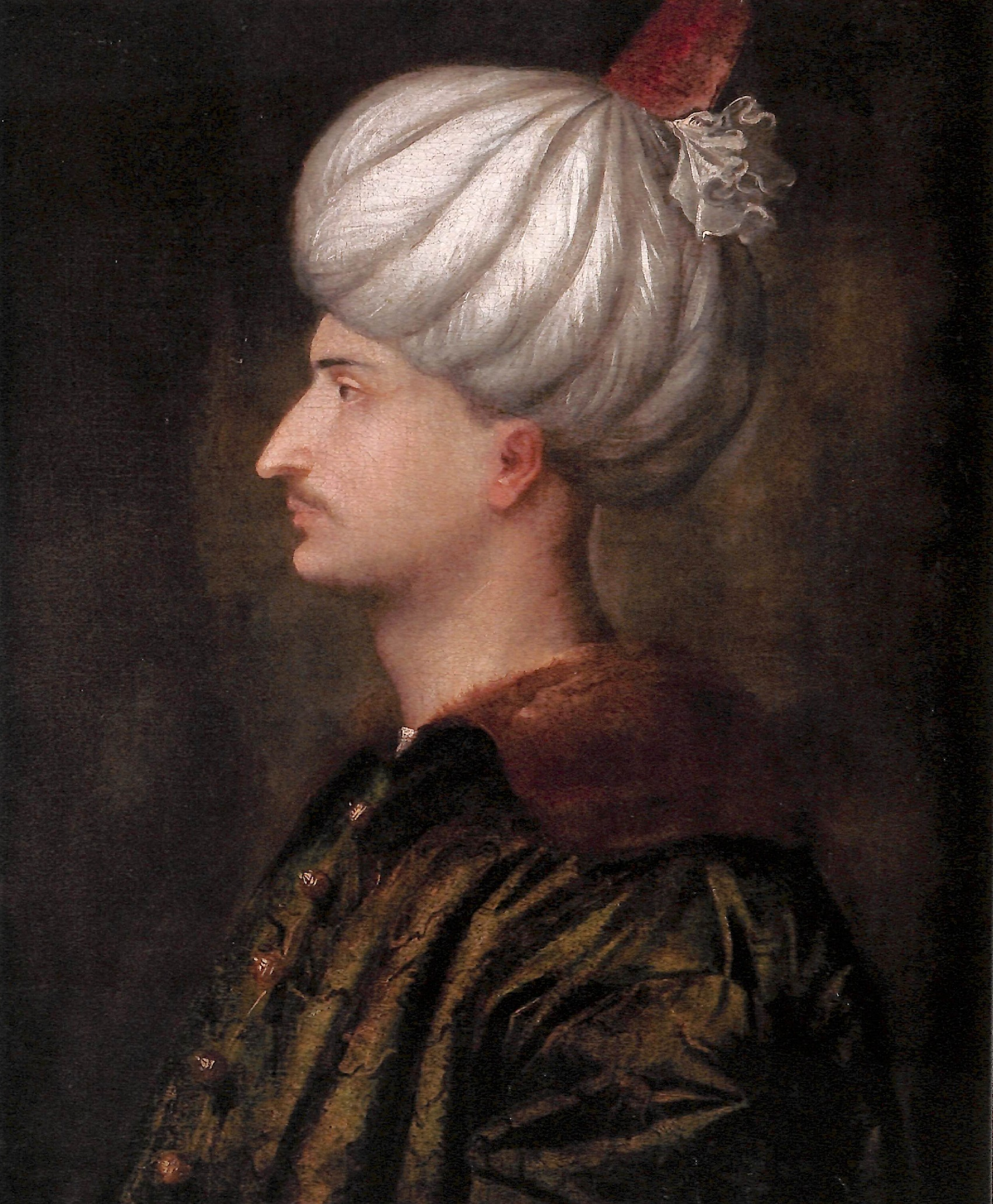 Portrait of Suleiman I